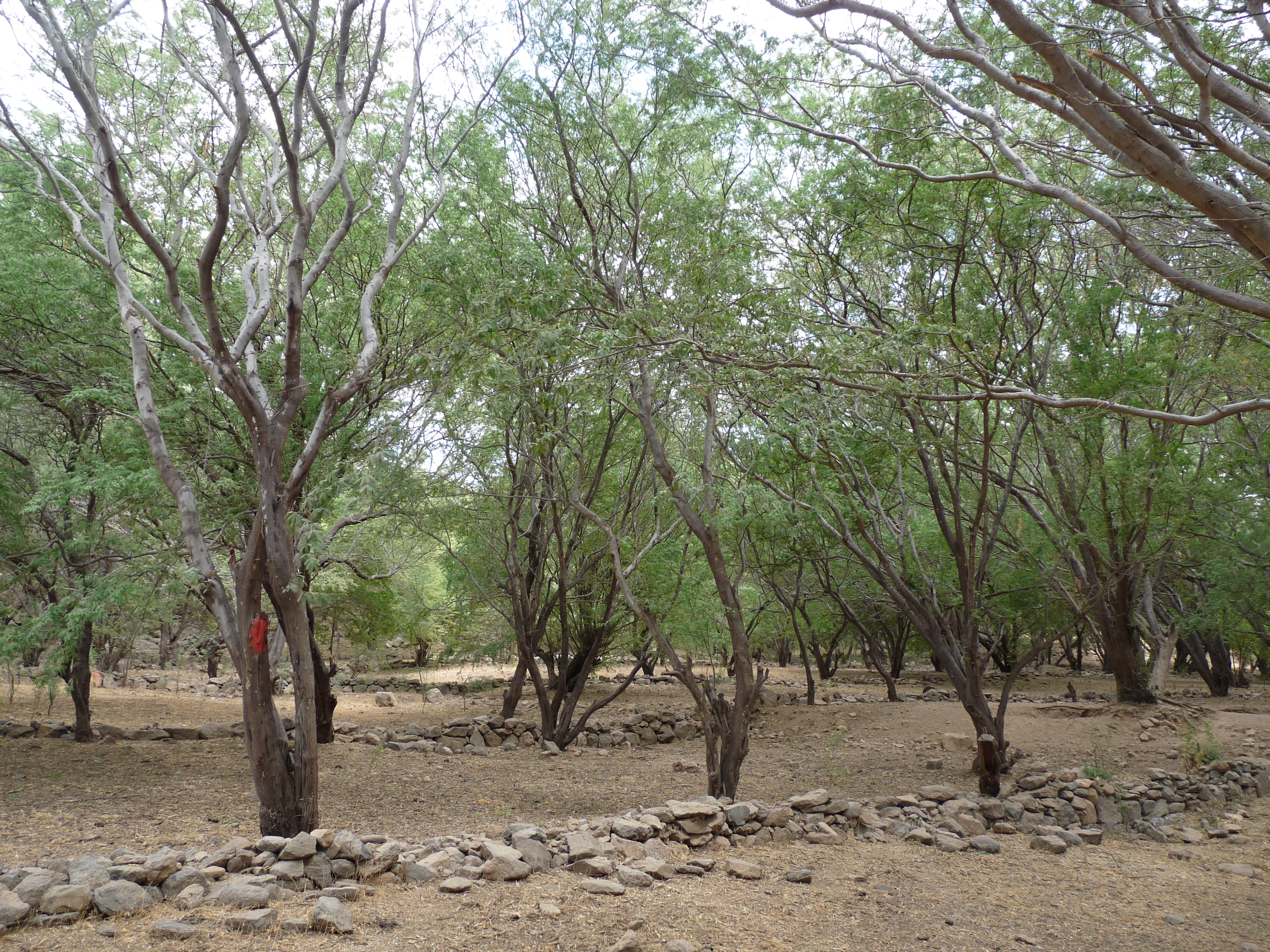 Acacia forest in the lower part of Tarrafal (Santiago Island, Cape Verde)